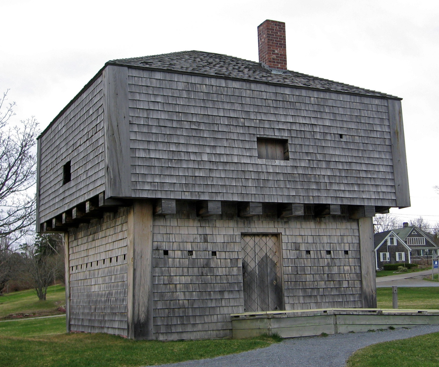 My picture from March 2006.